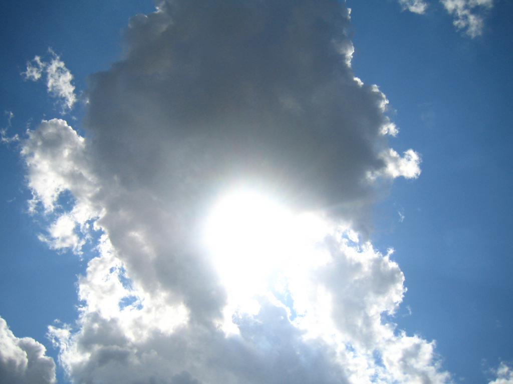 Your average neighborhood street in Bolingbrook, IL --- Picture by Jeffrey Tischart, Jr.